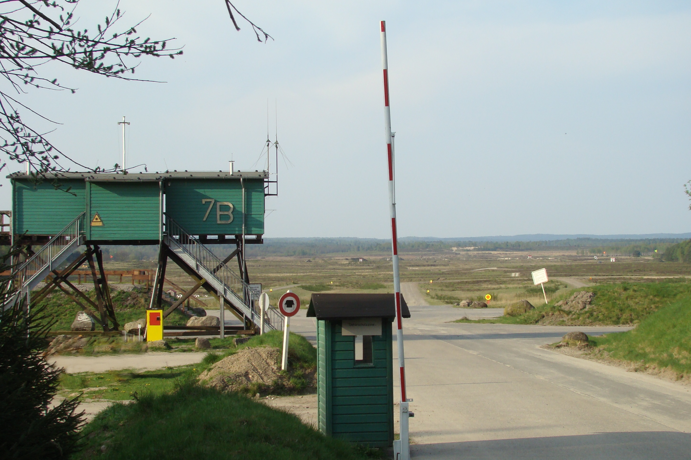 Tank range 7 B with control tower near Ostenholz on the Bergen-Hohne Training Area, Germany.